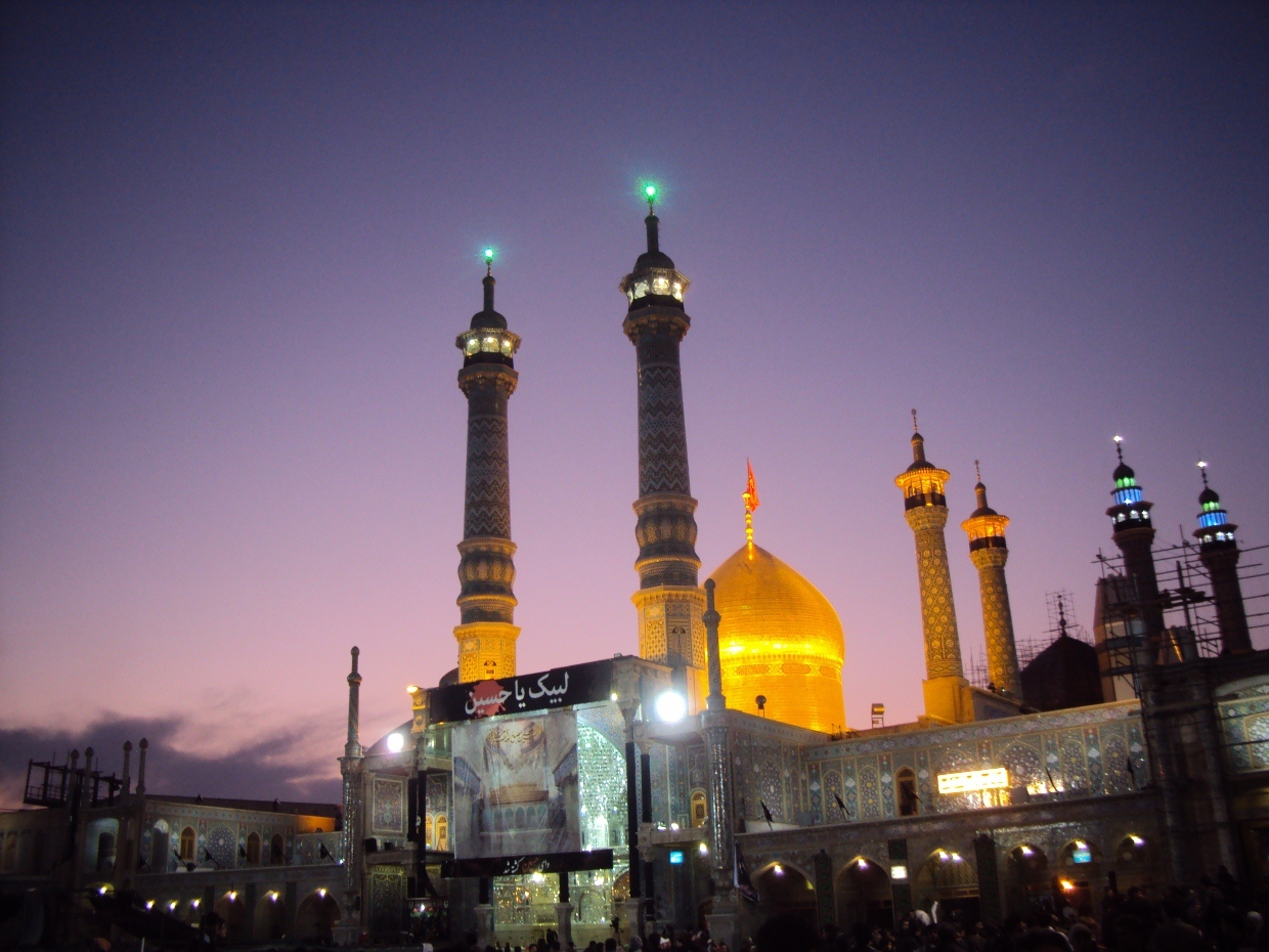 مقبره فاطمه معصومه